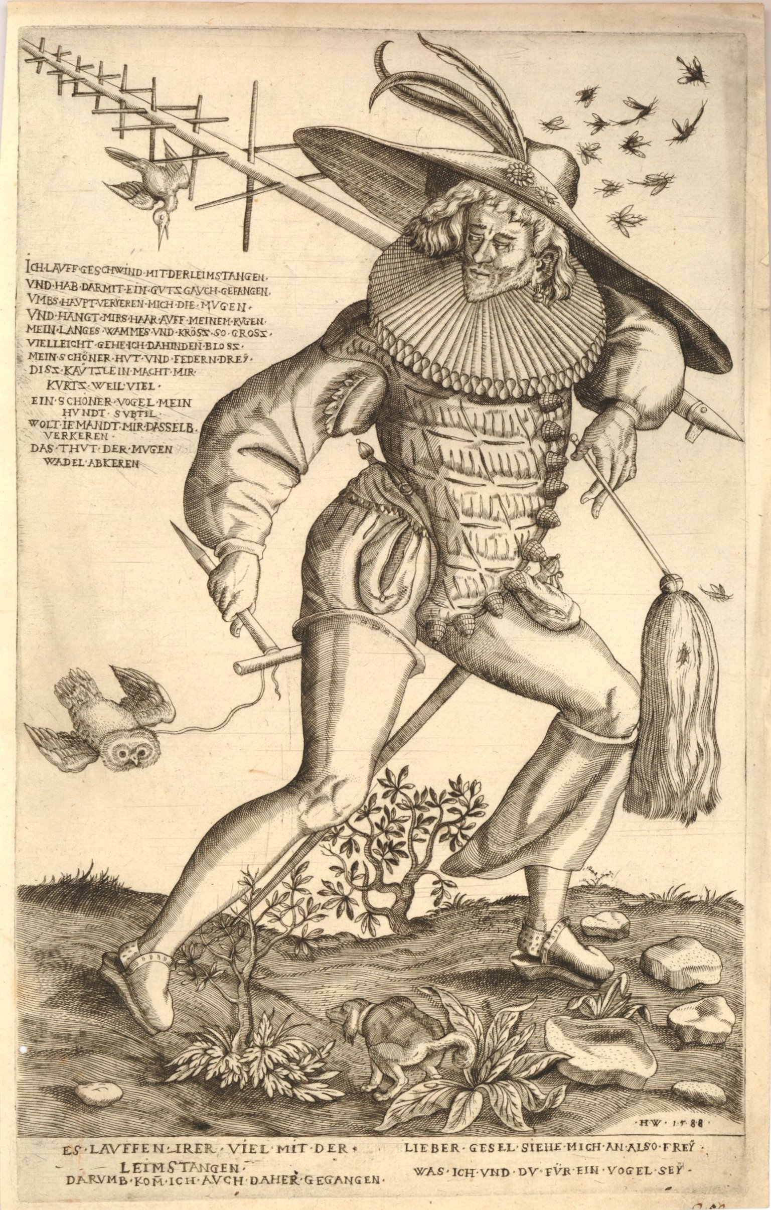 A broadside on human weaknesses and foolishness; with an engraving depicting a bird-catcher, and with engraved text. (n.p.:1588)